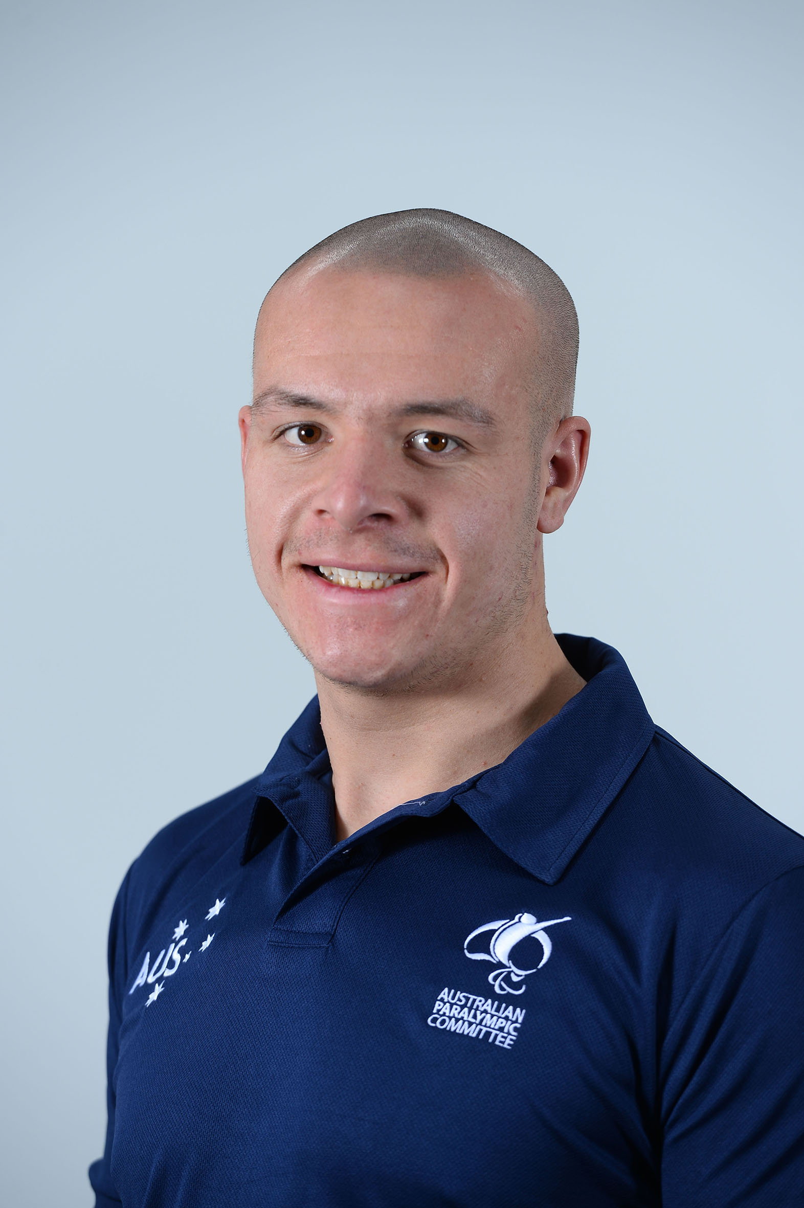 Portrait photograph of Joshua Alford taken at team processing session for shadow members of 2016 Australian Paralympic team